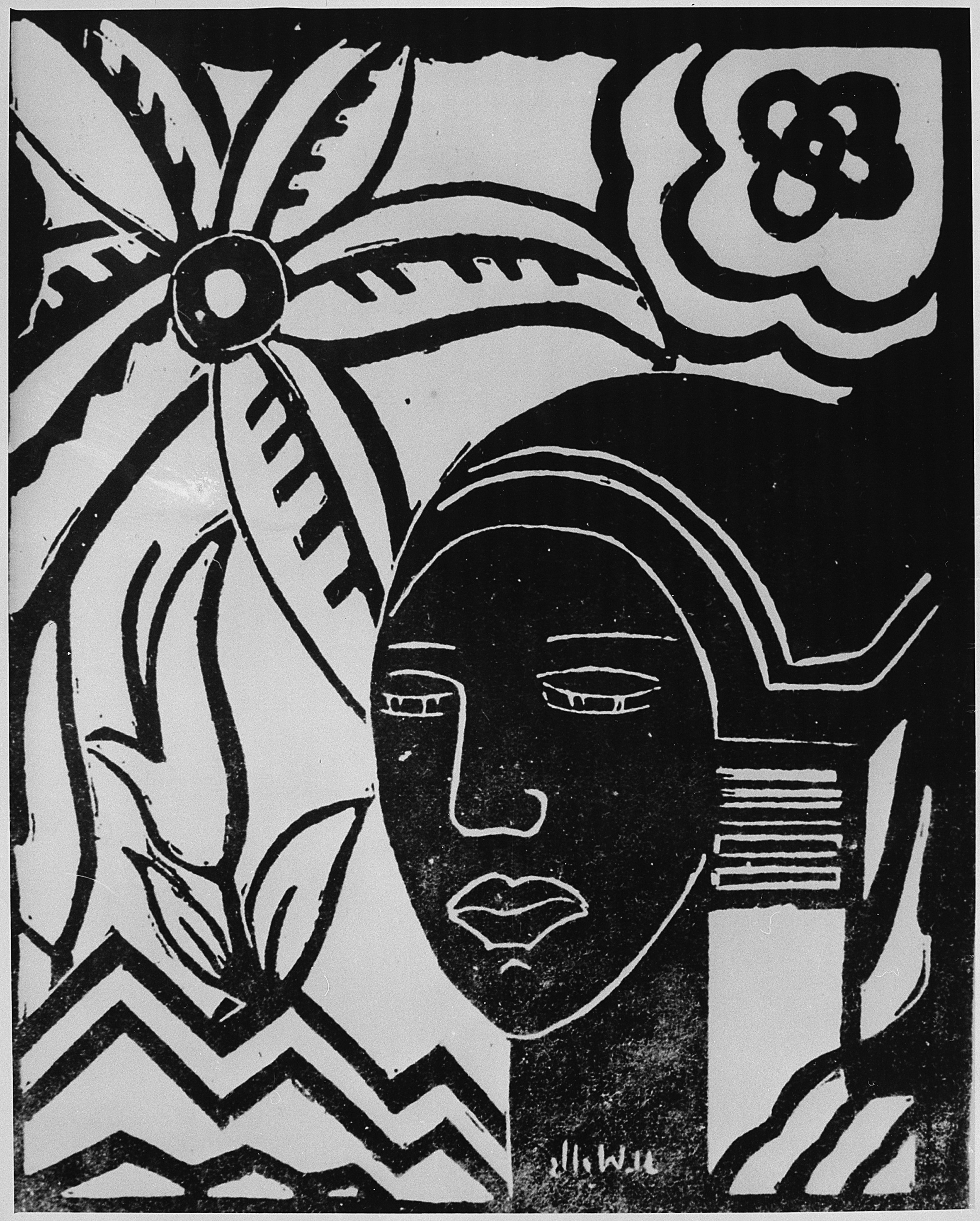 General notes: Painting.